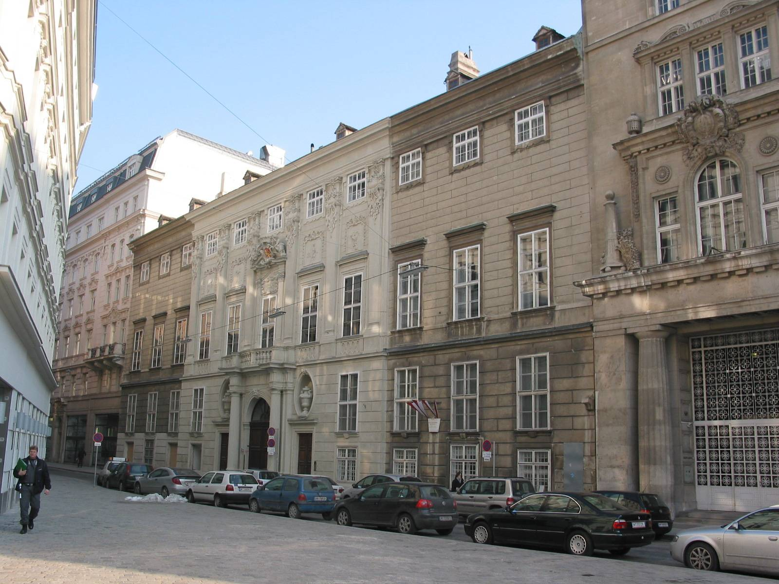 Description: Palais Schönborn-Batthyány, also known as Palais Batthyány-Schönborn, Renngasse 4, Vienna I, 2006-01-28 Source: selfmade photo